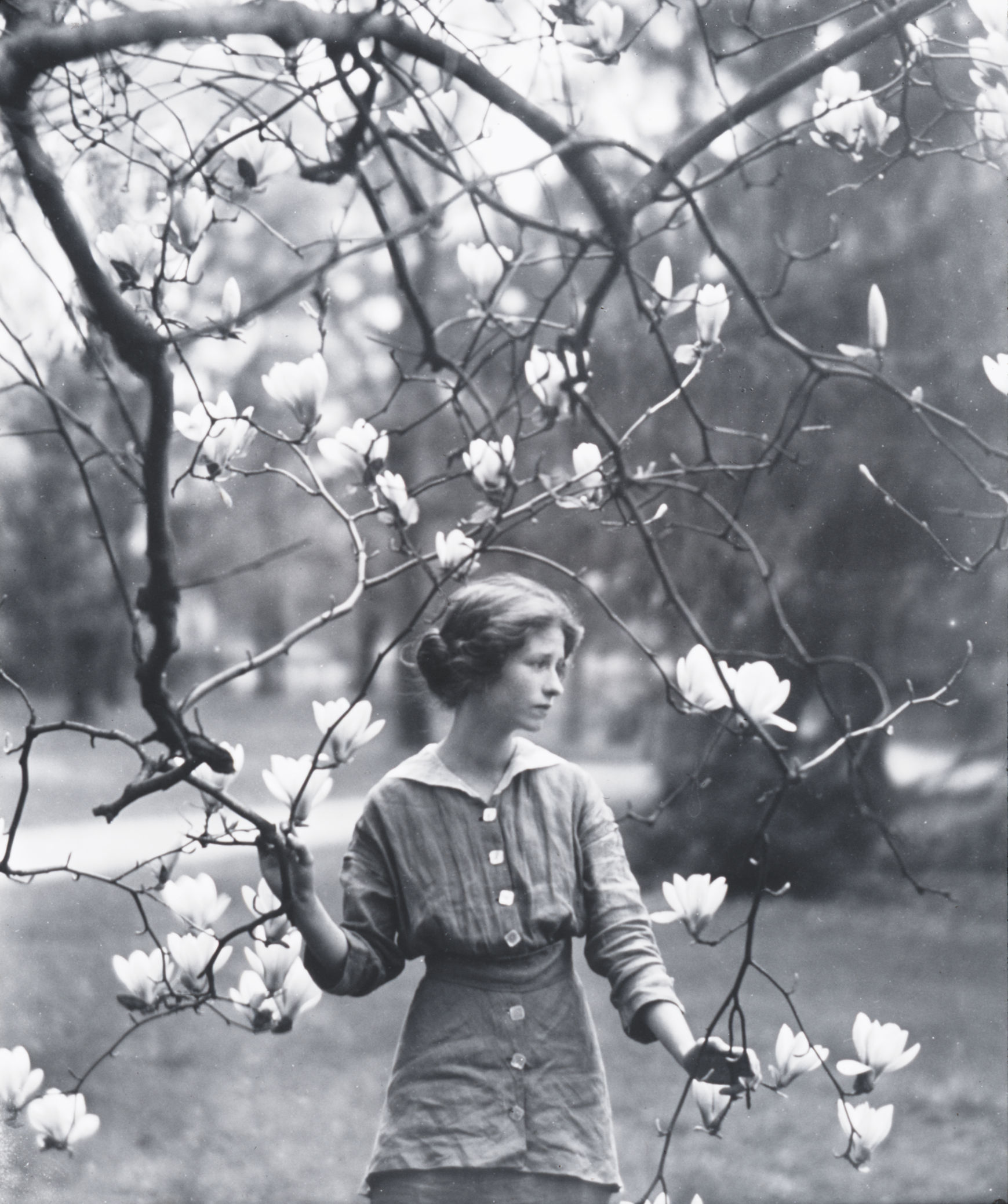 Photograph of Edna St. Vincent Millay